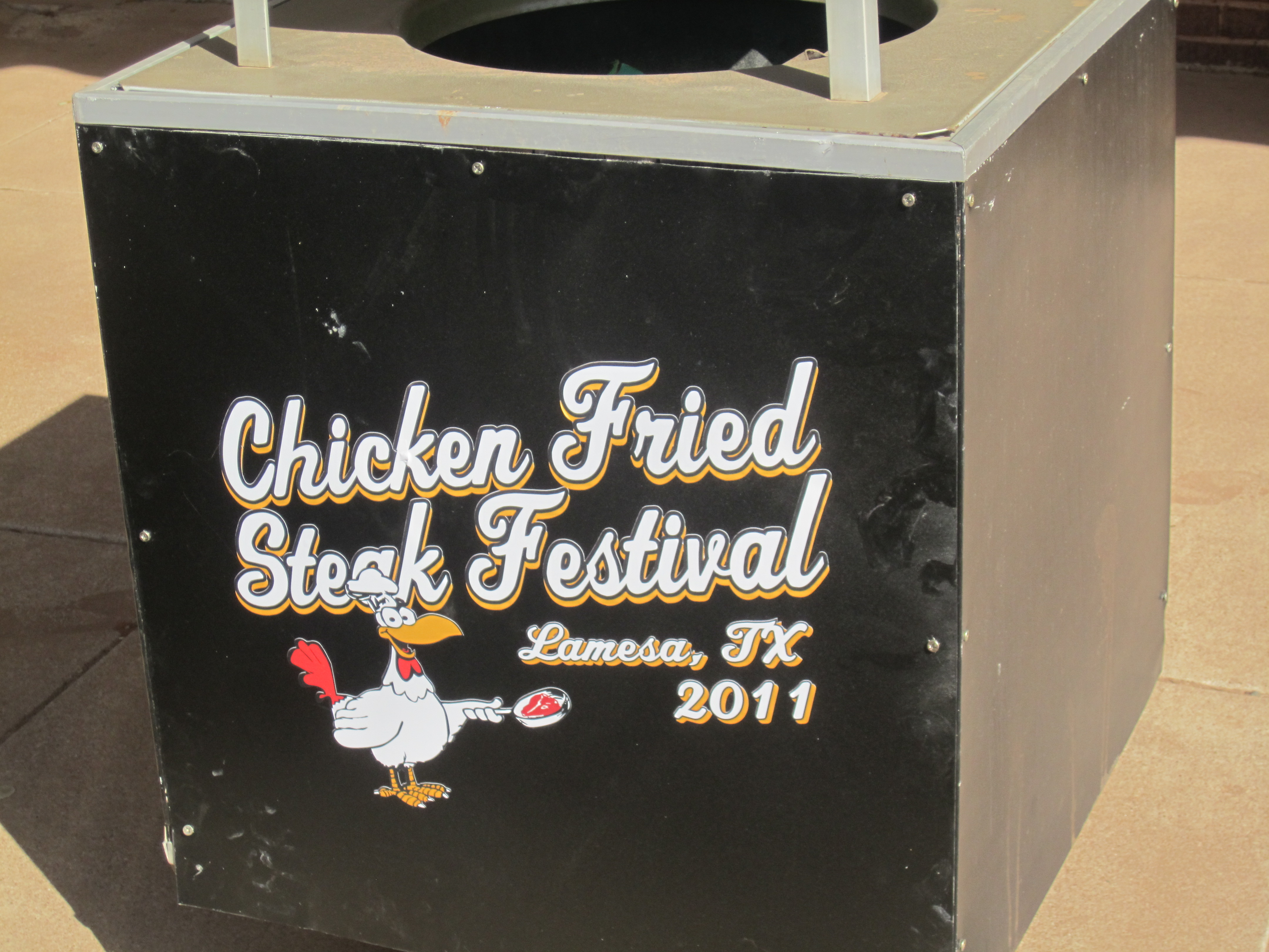 I took photo in Lamesa, TX, with Canon camera.